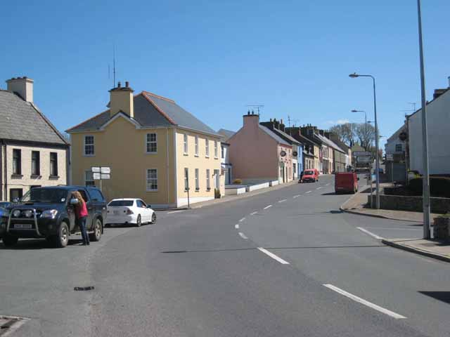 Main Street, Drumkeeran The R280 Manorhamilton to Drumshanbo road passes along this street.